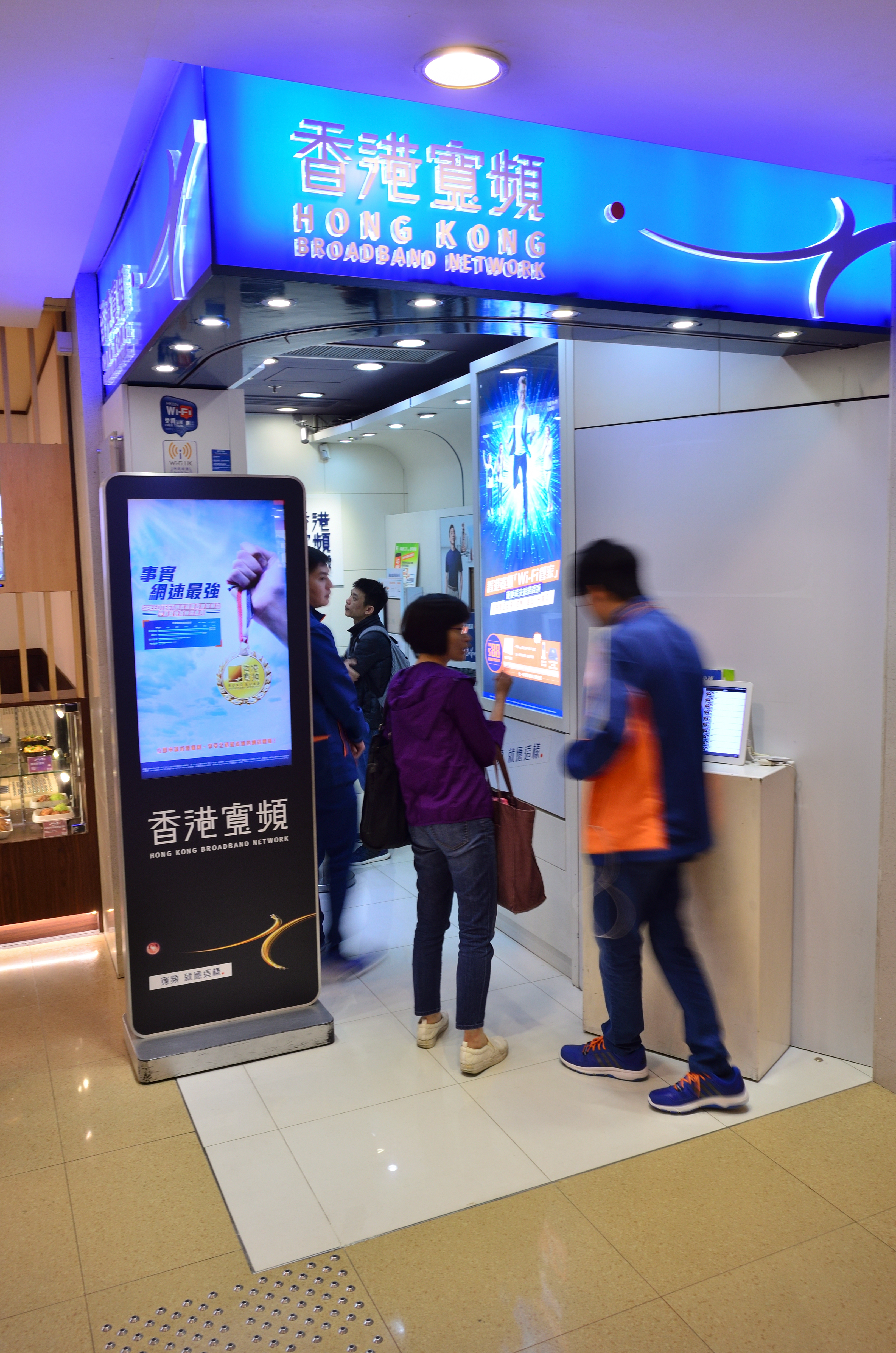 HKBN store in Wong Tai Sin. Address: Shop G5, G/F, Temple Mall South, Wong Tai Sin, Kowloon